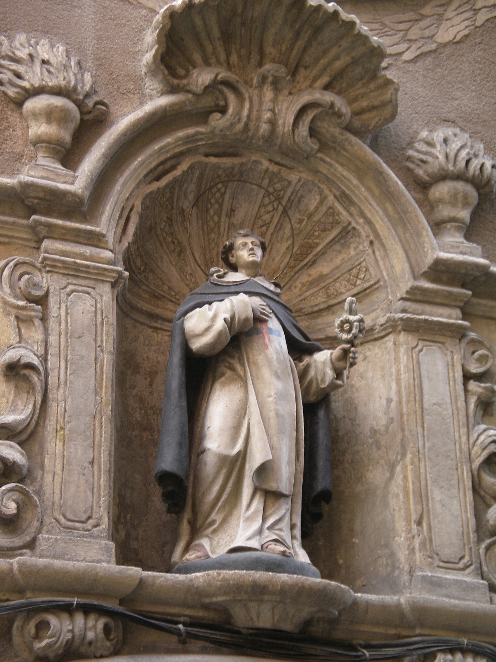 St. Miquel dels Sants, patron of Vic, sculpture of 18th cent. at his native home chapel.